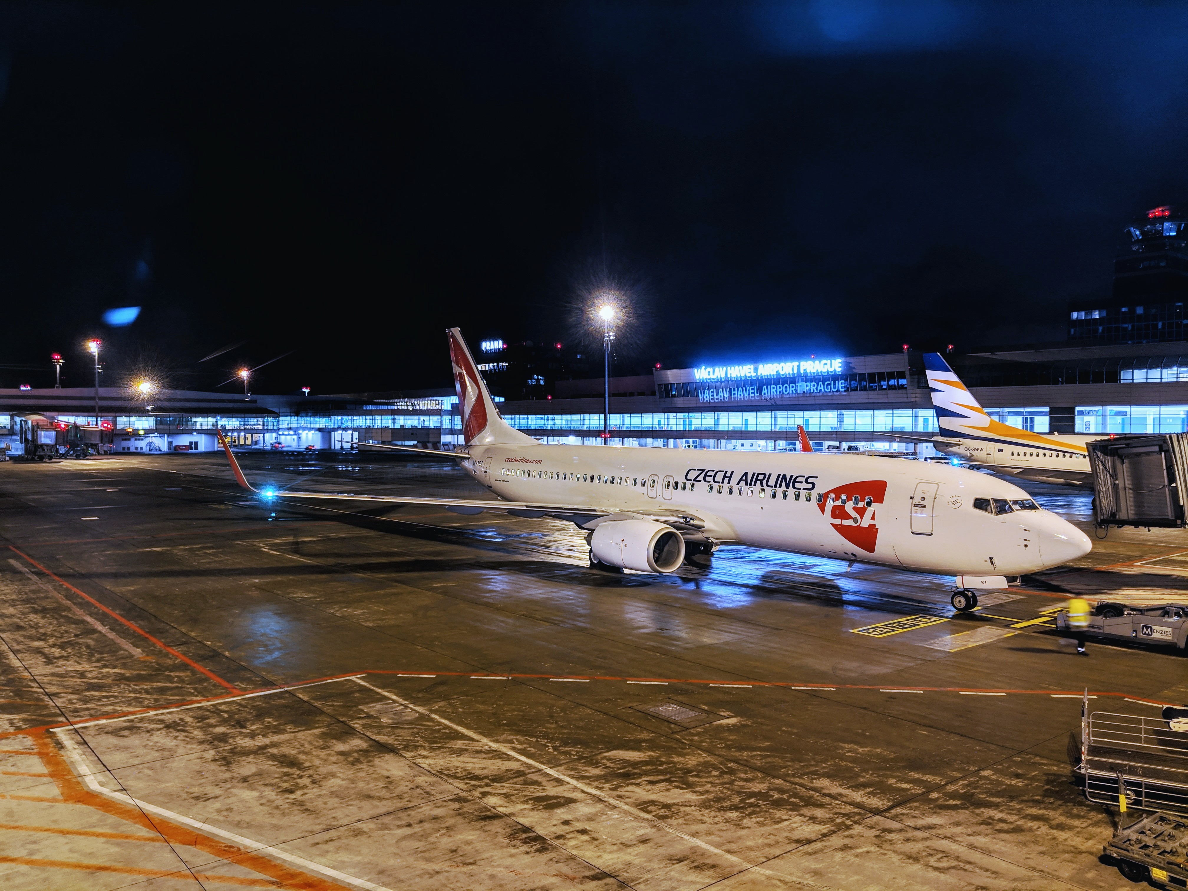 Czech Airlines Boeing 737-800 OK-TST operated by Smartwings